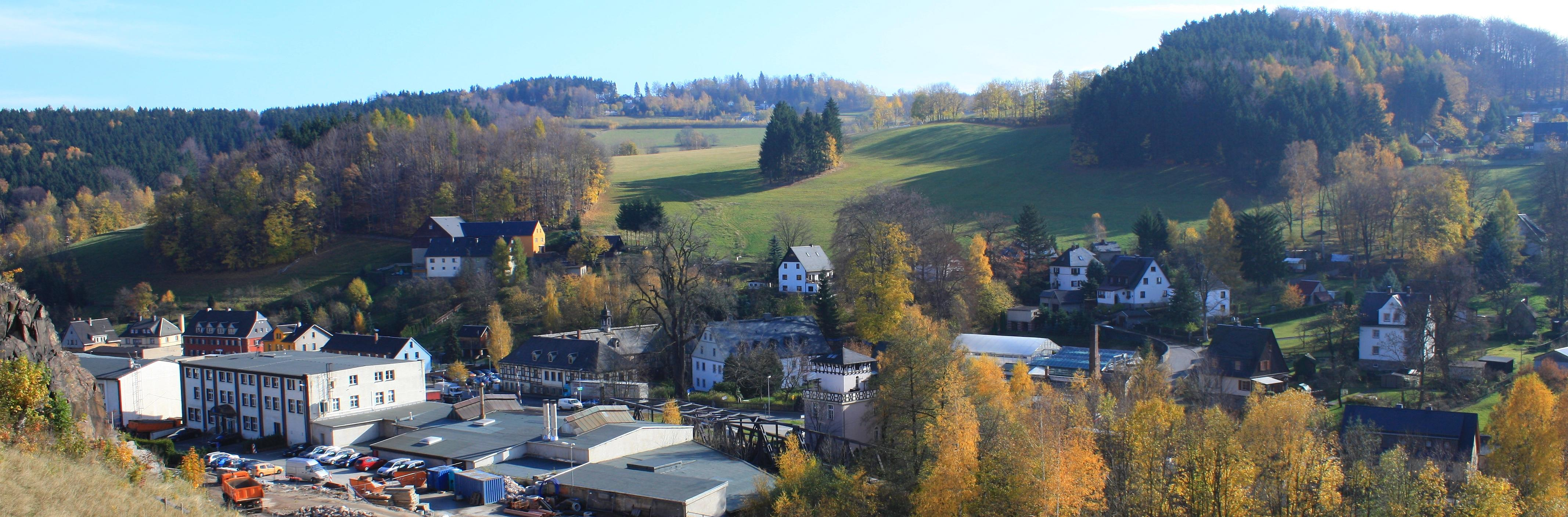 Erla